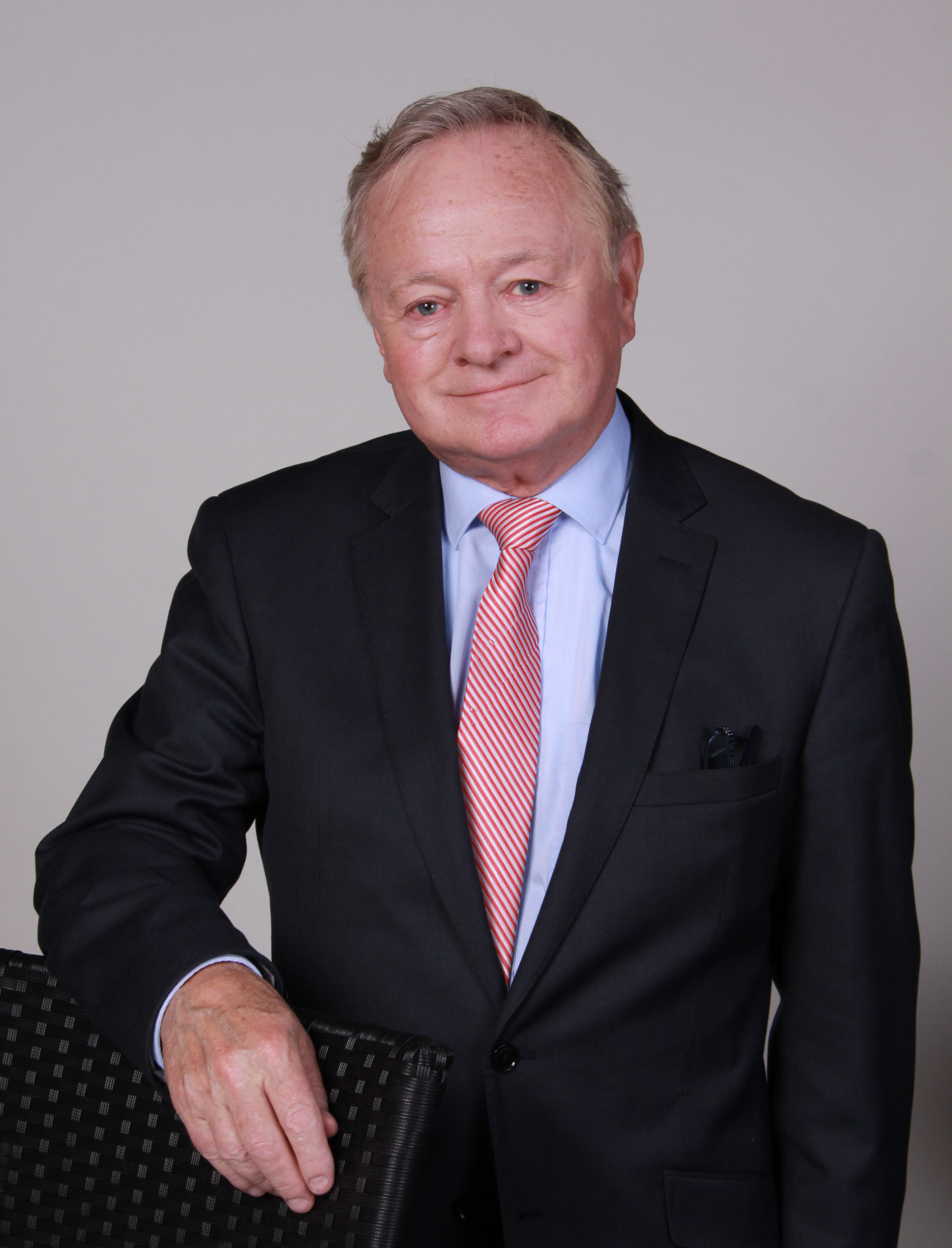 Jim Higgins, Member of the European Parliament